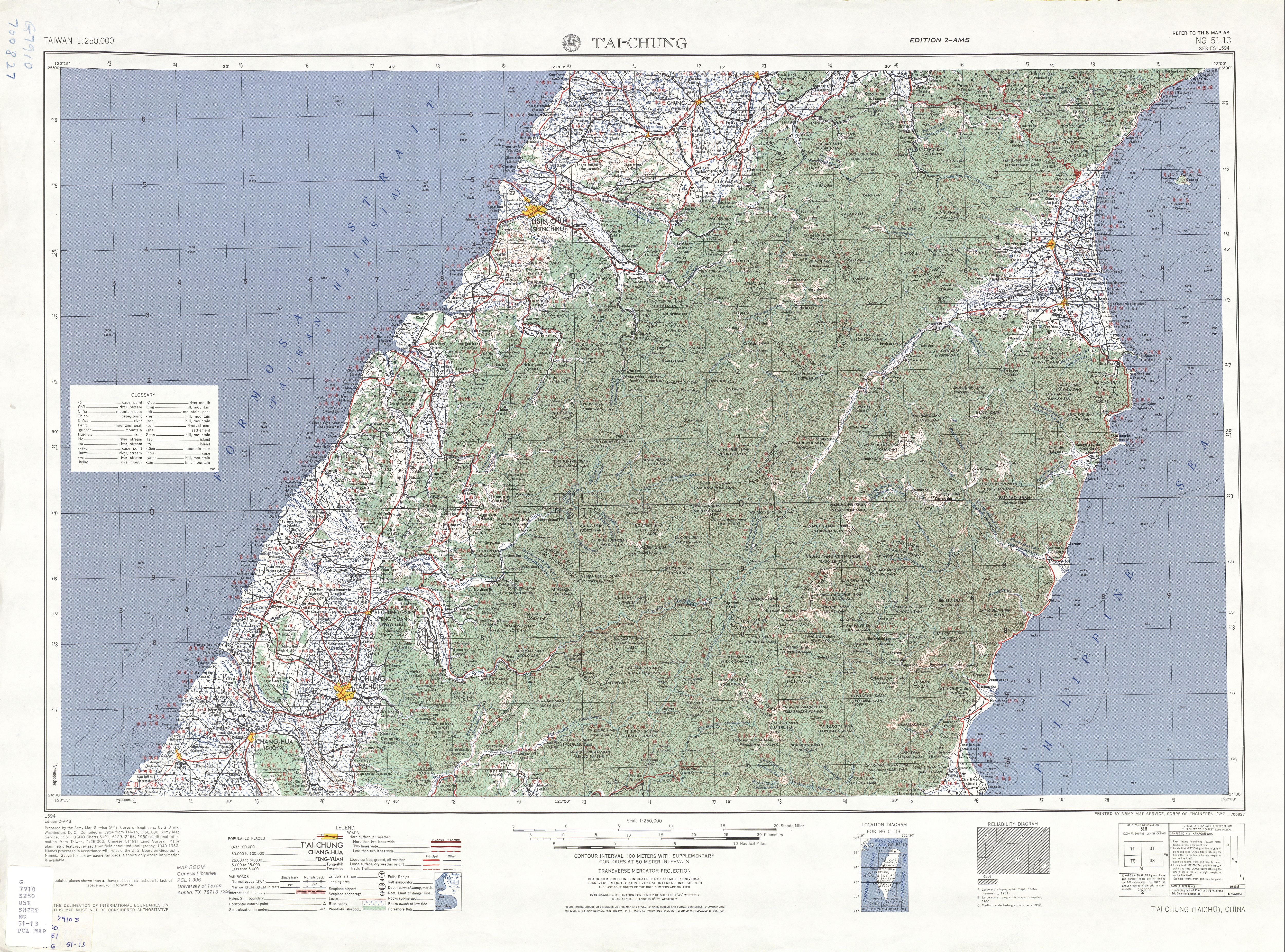 Map of the Taichung (T'ai-chung, Taichū) area, Taiwan (ROC). From the Tawian AMS Topographic Maps series.